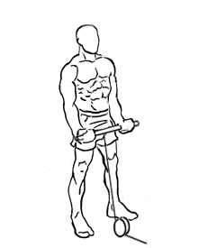 an exercise of biceps